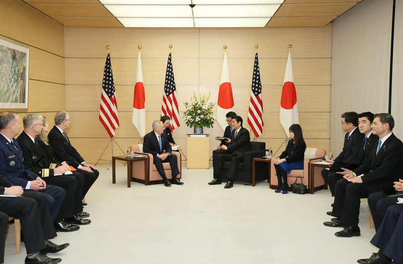 James Mattis, Secretary of Defense, talked with Shinzō Abe, Prime Minister, and Tomomi Inada, Minister of Defense, at the Prime Minister's Official Residence in Chiyoda Ward, Tōkyō Metropolis on February 3, 2017.